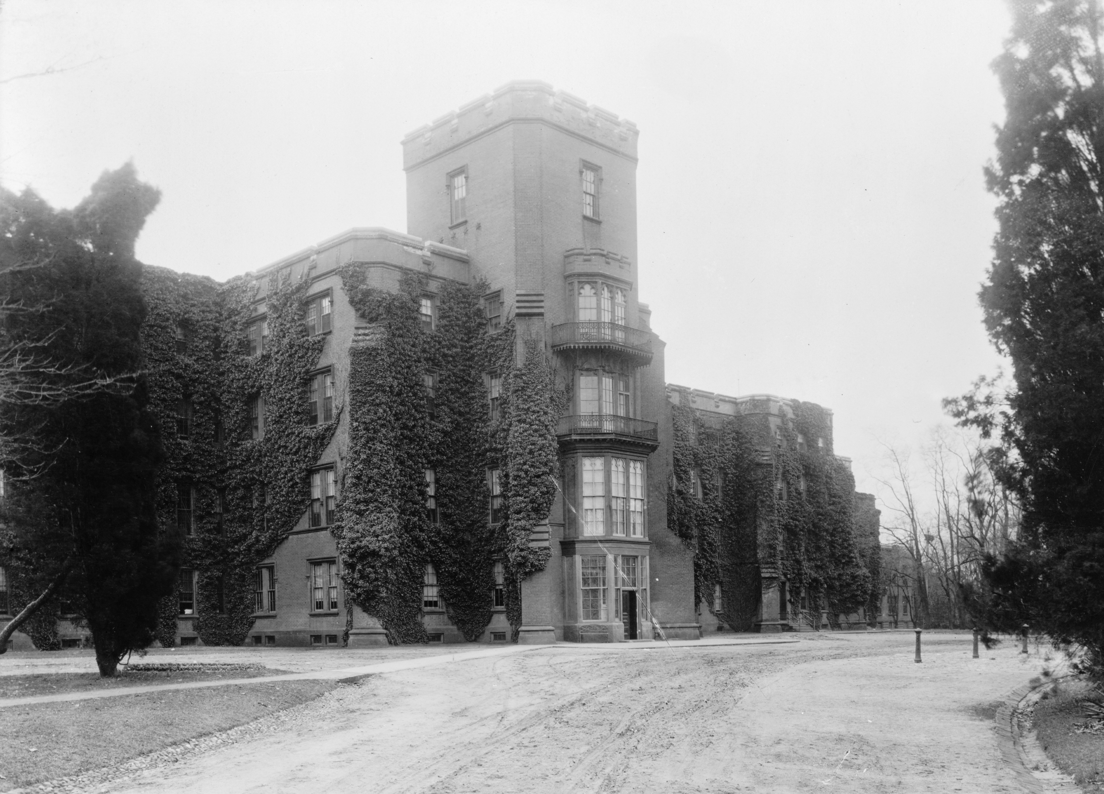 Center Building at St. Elizabeths Hospital in Washington, D.C. This building is one of the oldest on the hospital campus. Southwest, Washington, District of Columbia